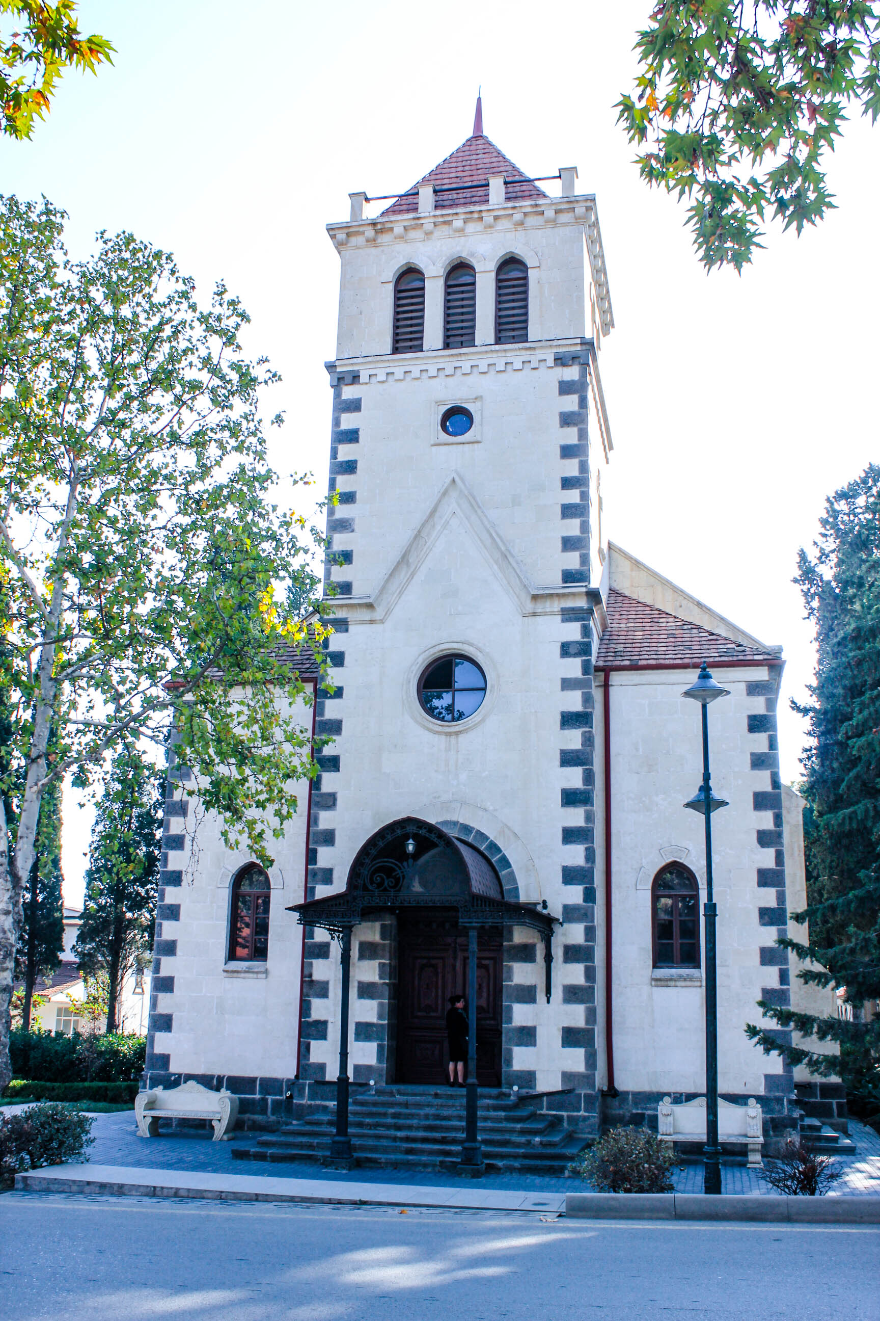 Kirche in Annenfeld